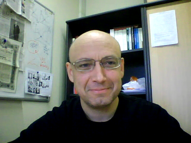 This is a photo of Professor Nikolay Nenovsky.